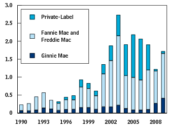 The table shows mortgage-backed security issuances over time. This image is public domain. It was created by and used by the US congressional budget office (CBO).